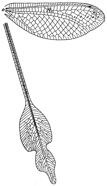 Wings of Lertha extensa (Neuroptera: Nemopteridae).